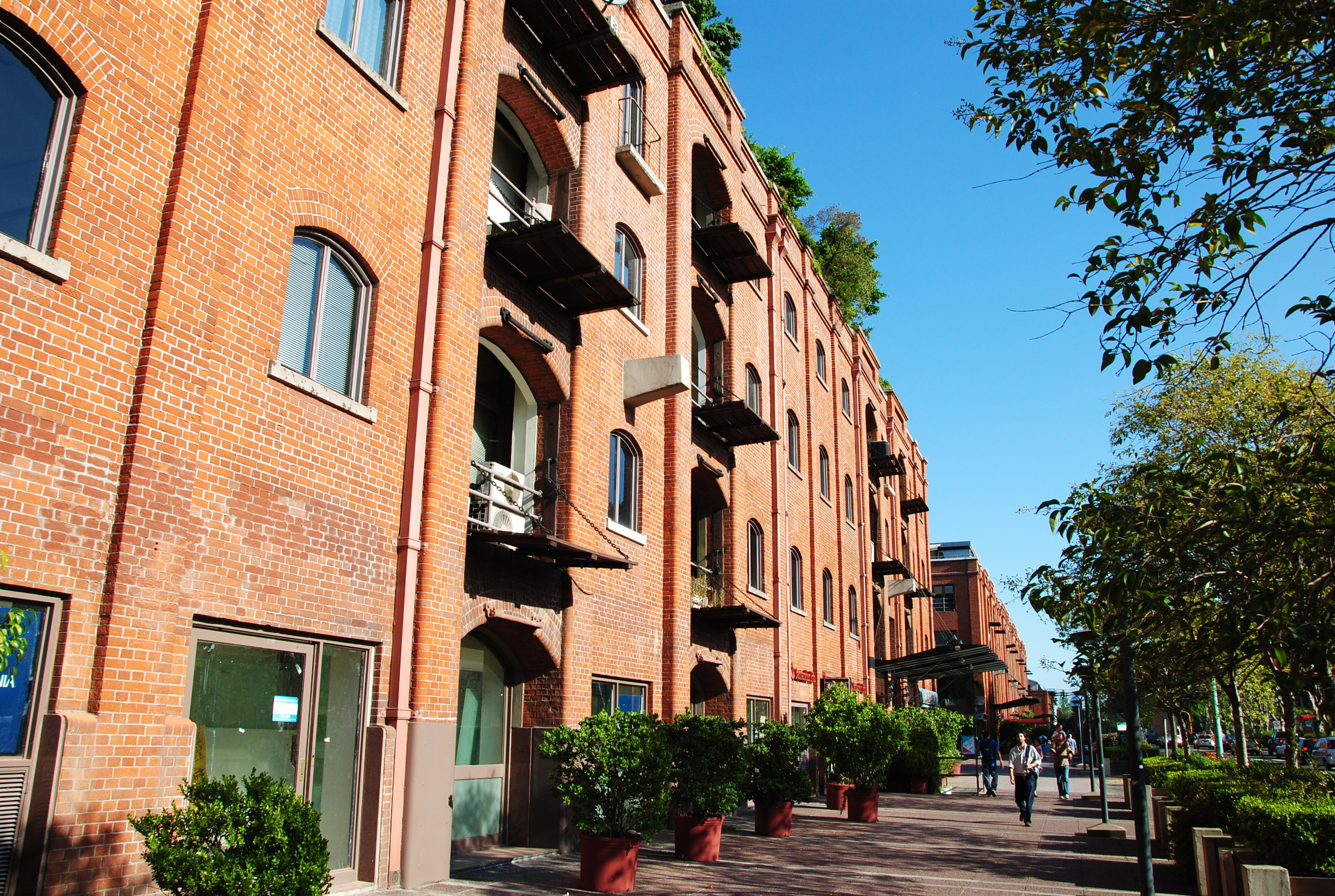 Former warehouses (1898), converted into lofts and retail space in the mid-1990s, in the Puerto Madero section of Buenos Aires.